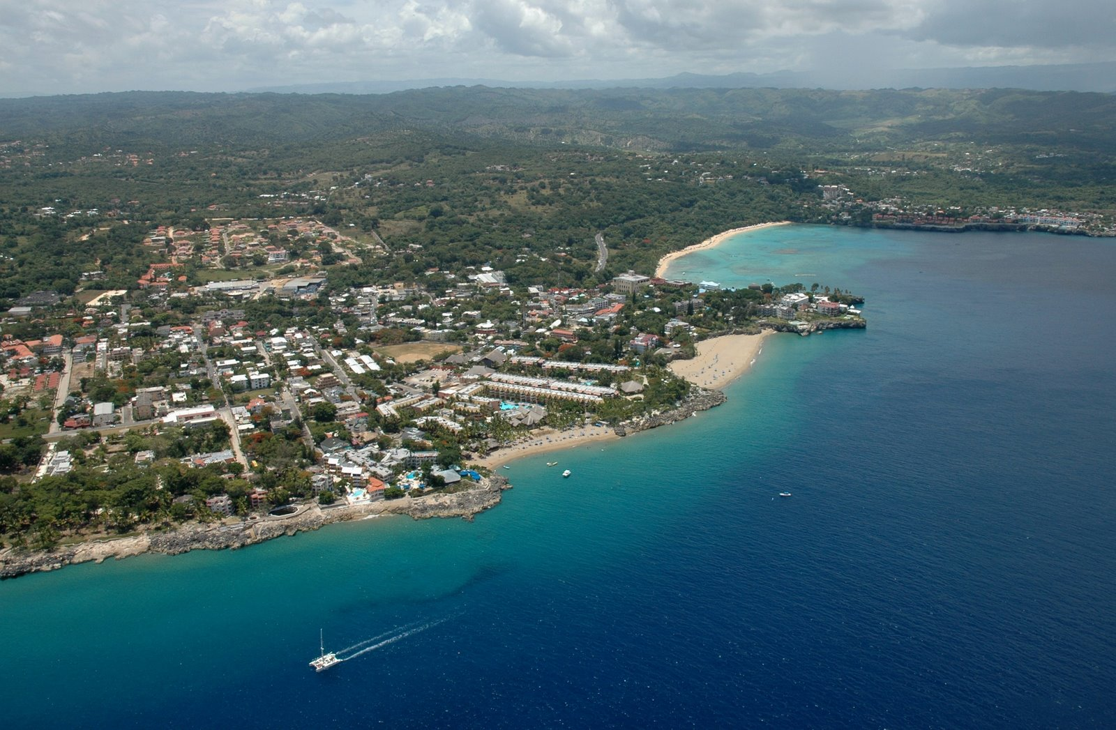 This image is an aerial view of the city of Sosua in the Dominican Republic